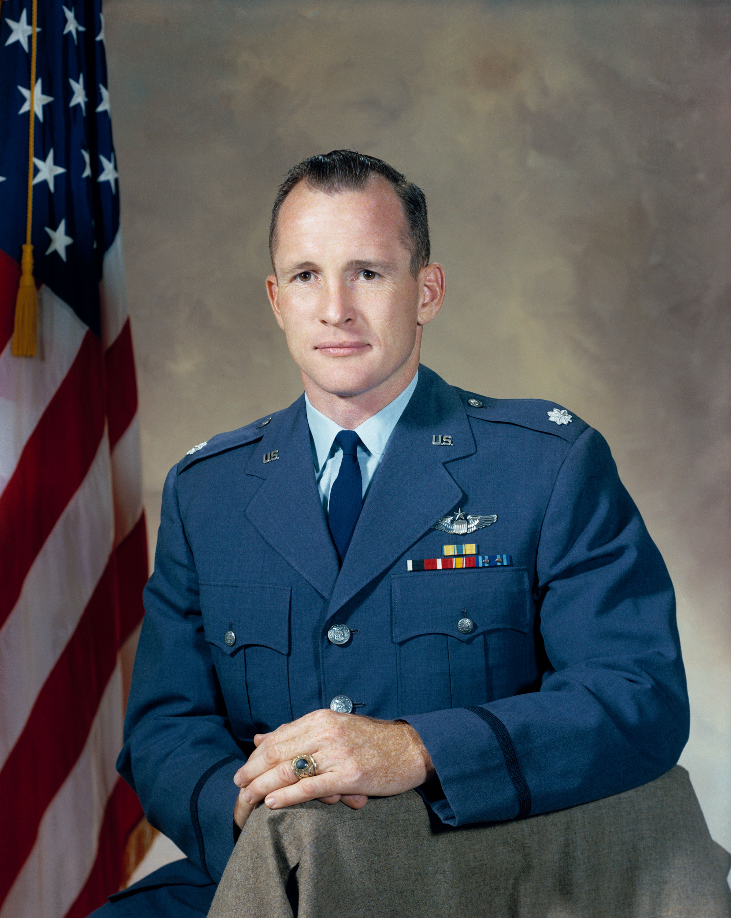 Astronaut Edward H. White II (United States Air Force Lieutenant Colonel), Gemini 4 pilot. Editor's Note: Since this portrait was taken astronaut White lost his life on Jan. 27, 1967, in the Apollo 1/Saturn 204 fire at Cape Kennedy, KSC, Florida.